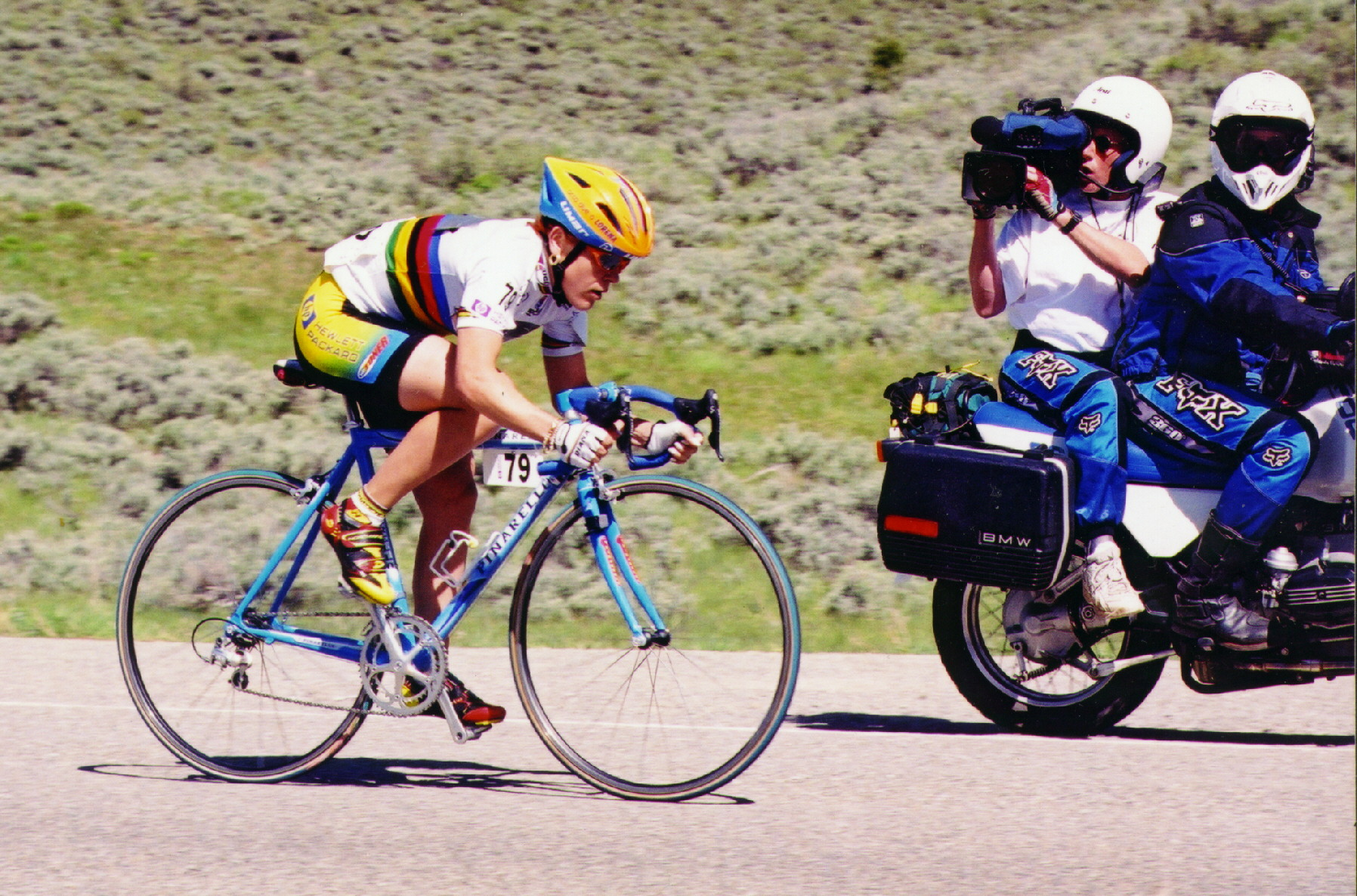 Diana Ziliute during the Sun Valley Time Trial (1999 Women's Challenge). She is wearing the "rainbow jersey", emblematic of being the then current World Road Race Champion.